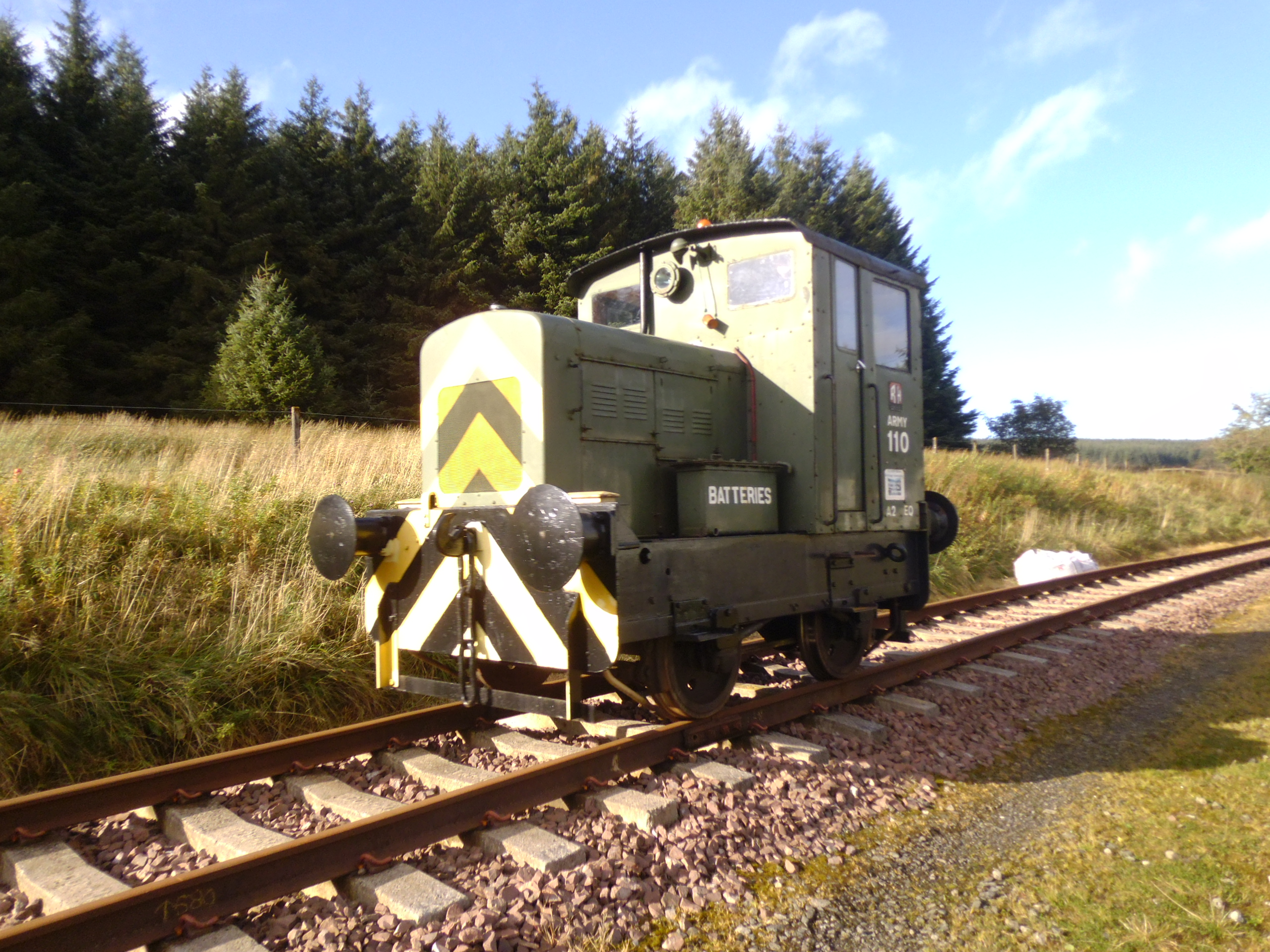 Ruston & Hornsby four wheel deisel shunter Army 110 near Whitrope Summit, 30th September, 2012.